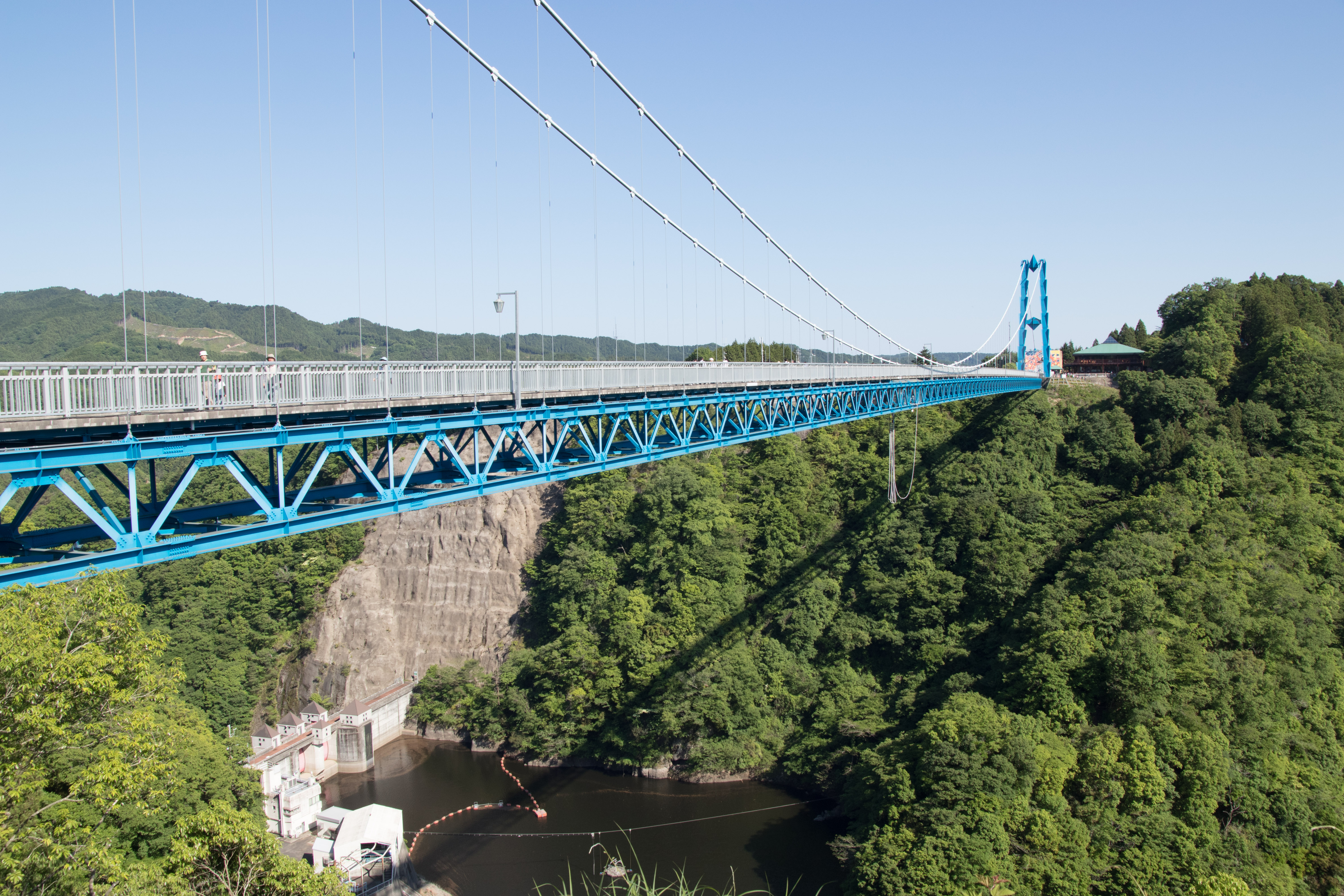 Ryujin Bridge, Hitachiota City, Ibaraki Pref., Japan